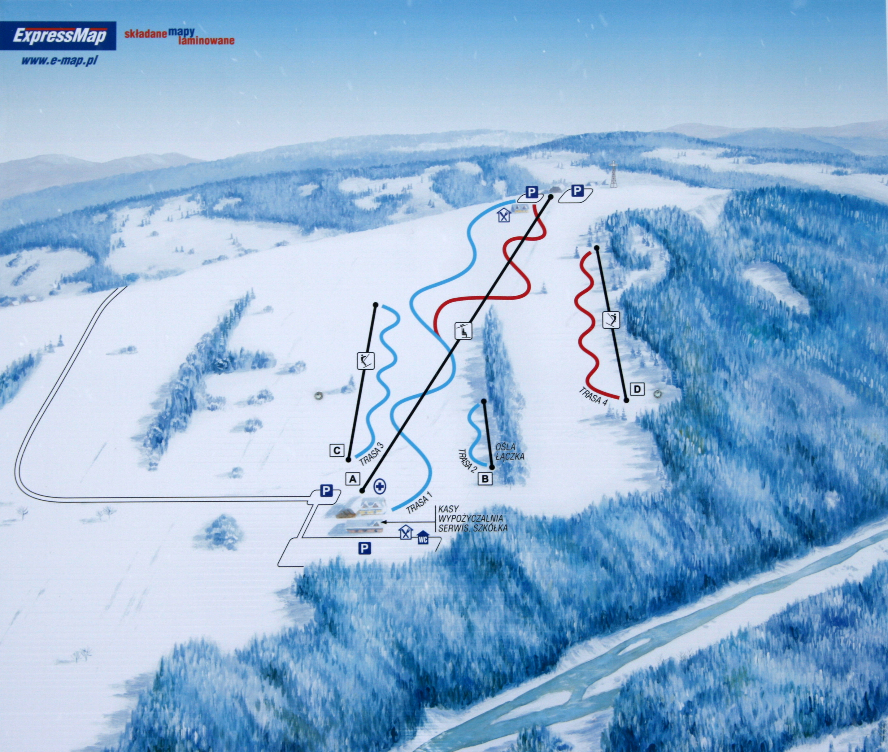 Grapa-Litwinka ski area map